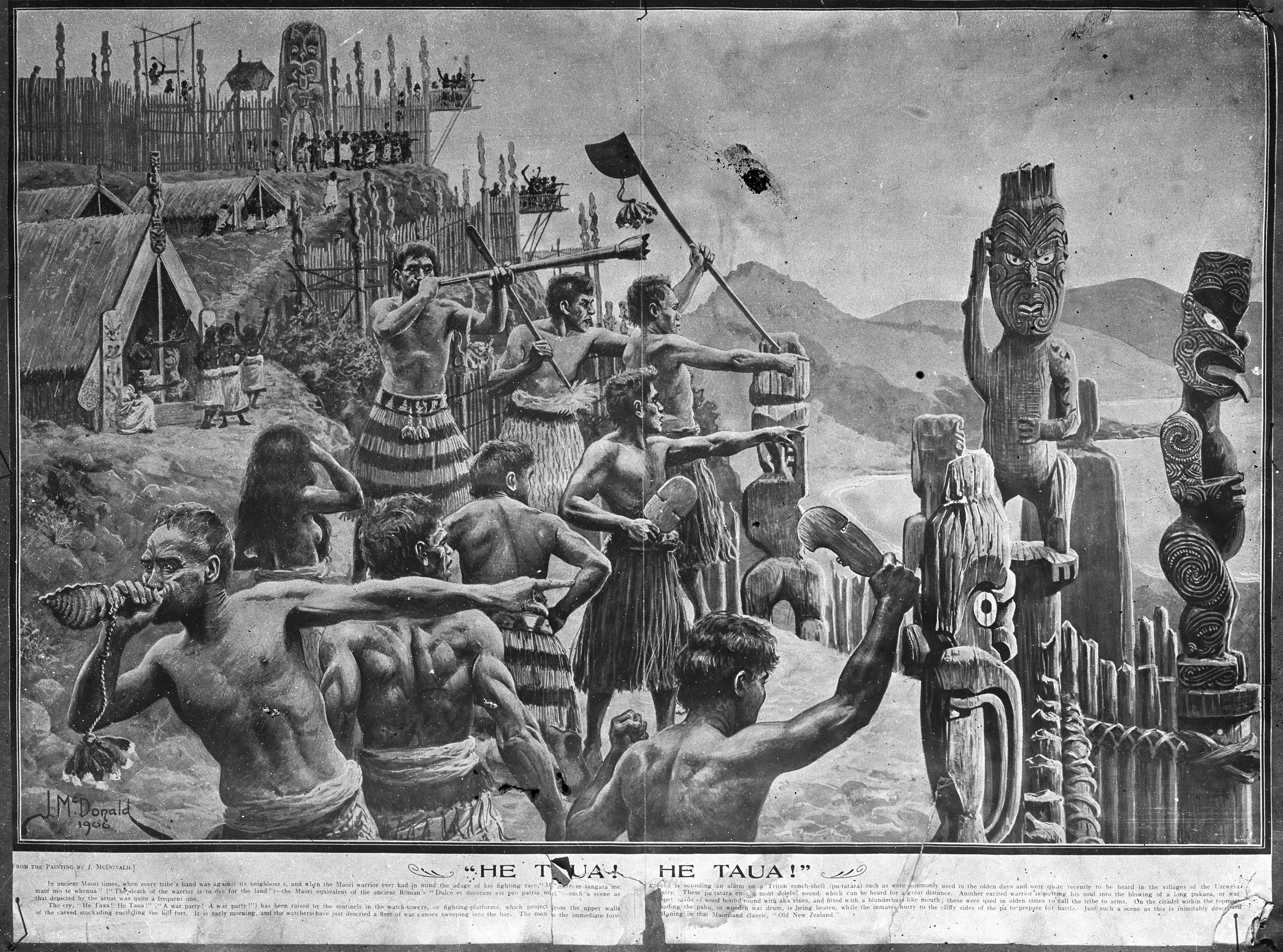 Photograph of a painting by J McDonald entitled "He Taua! He taua!" reproduced in an unidentified publication. The painting is signed "J McDonald, 1906". This image is a copy of the photograph of the original painting, and was taken by Albert Percy Godber. The negative shows the full inscription from the book. The painting shows a group of Maori warriors preparing for battle, one man sounding a warning through a conch shell (putatara), others wielding weapons, with other men standing on lookouts above the palisades.